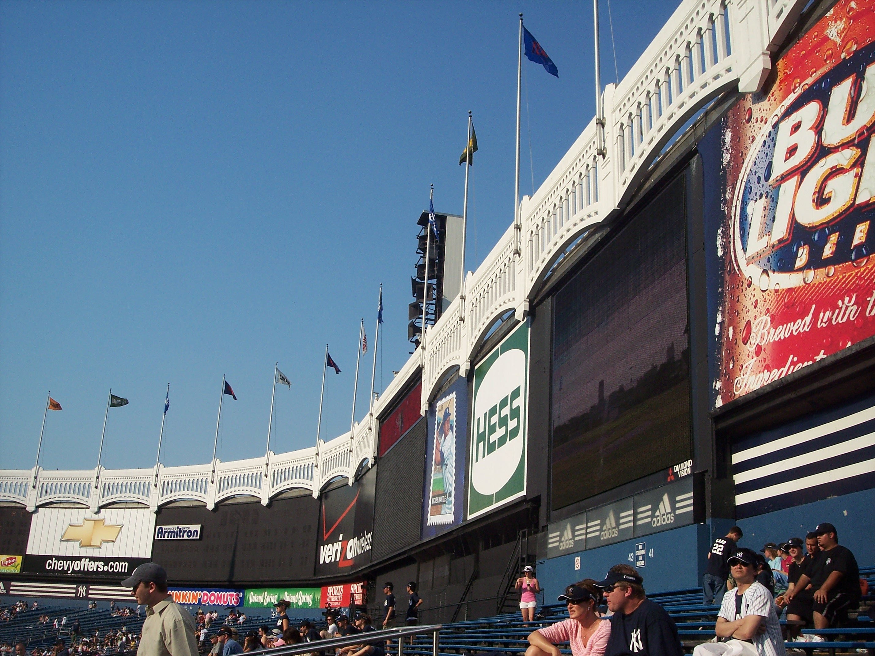 Source: I, the Silent Wind of Doom took the picture at Yankee Stadium 04:45, 14 November 2006 . . Silent Wind of Doom . . 2856×2142 (1,297,378 bytes)